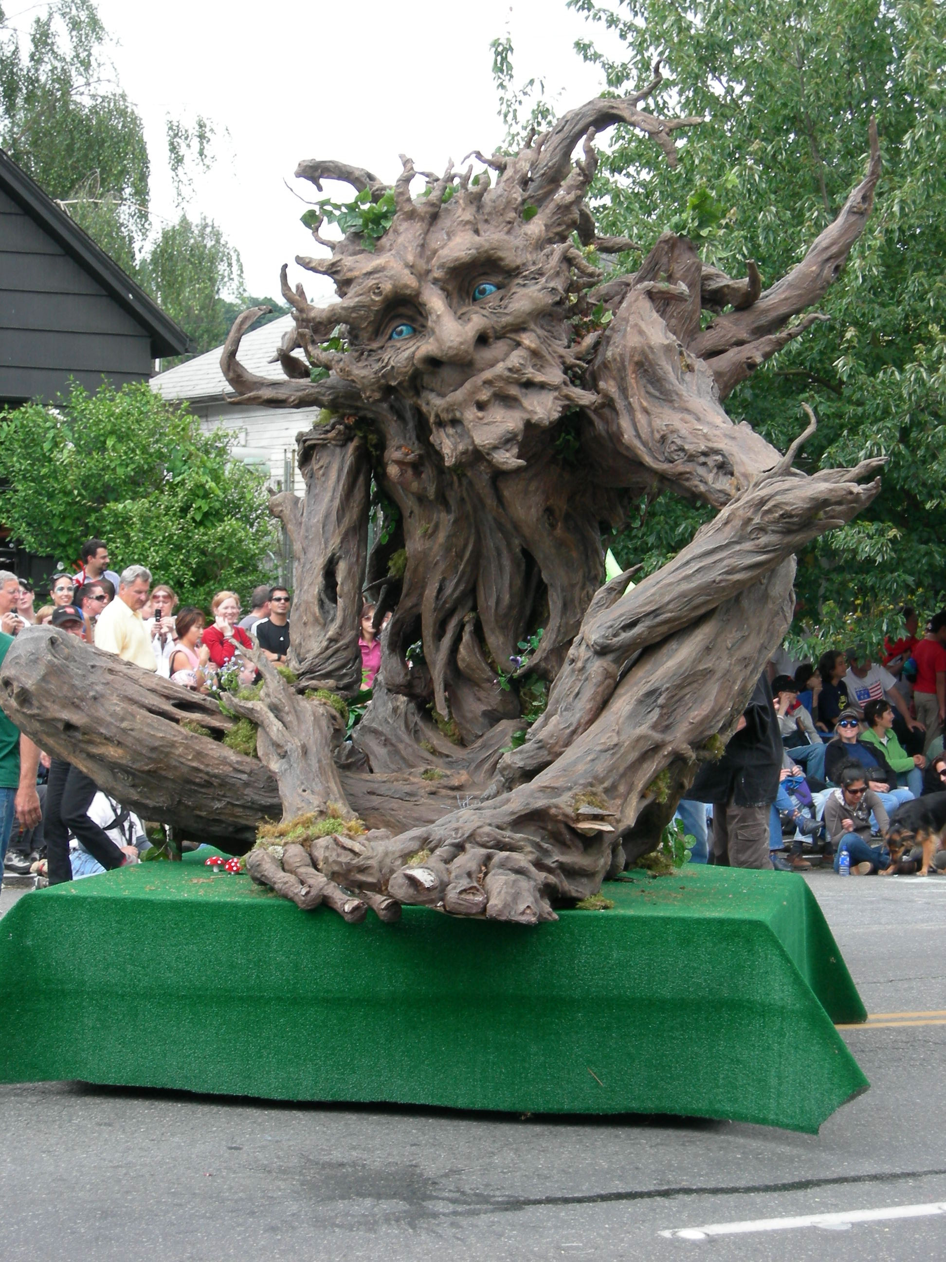 Float identified as an ent, which clearly also owed a lot to the related "green man" tradition, 2007 Summer Solstice Parade and Pageant, Fremont Fair, Seattle, Washington.